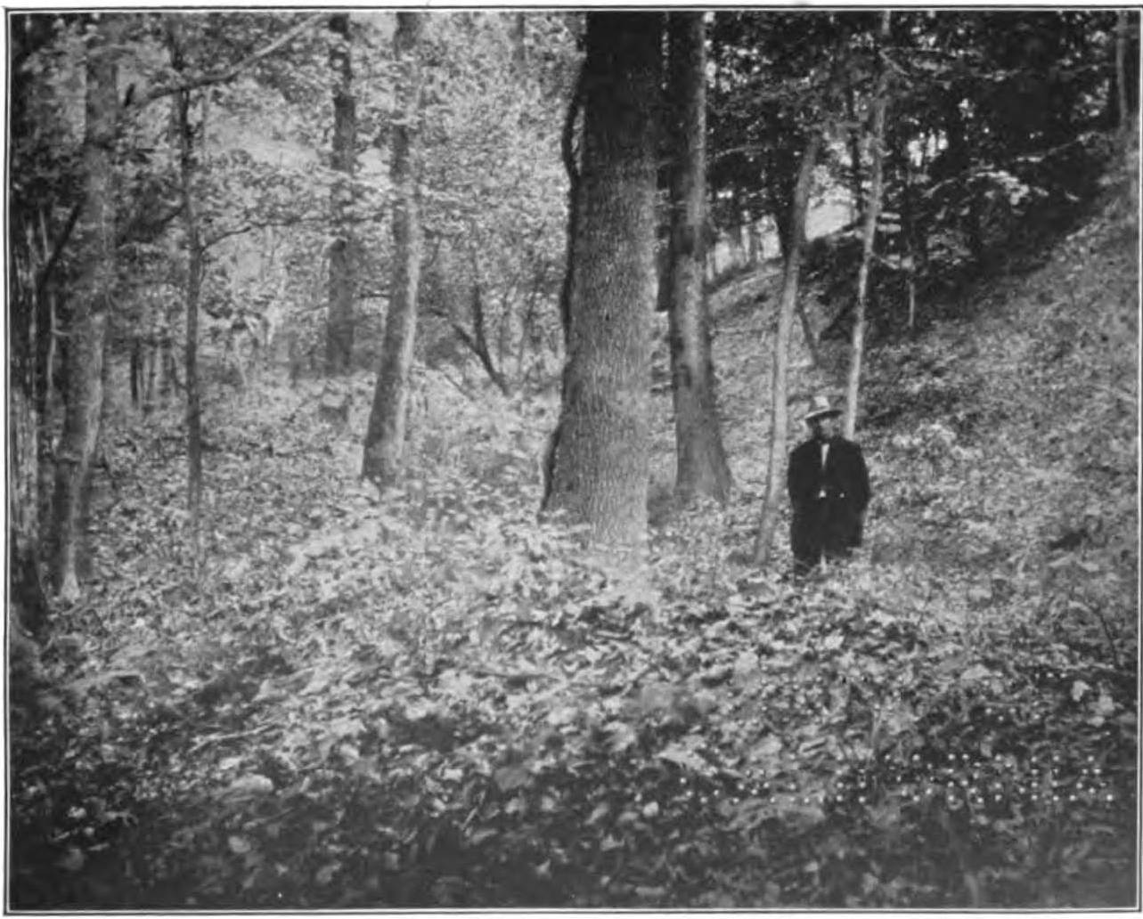 Bulletin 429 Plate X B original caption:Landslide terrace on north bank of Caddo Lake, just west of Texas-Louisiana state line.